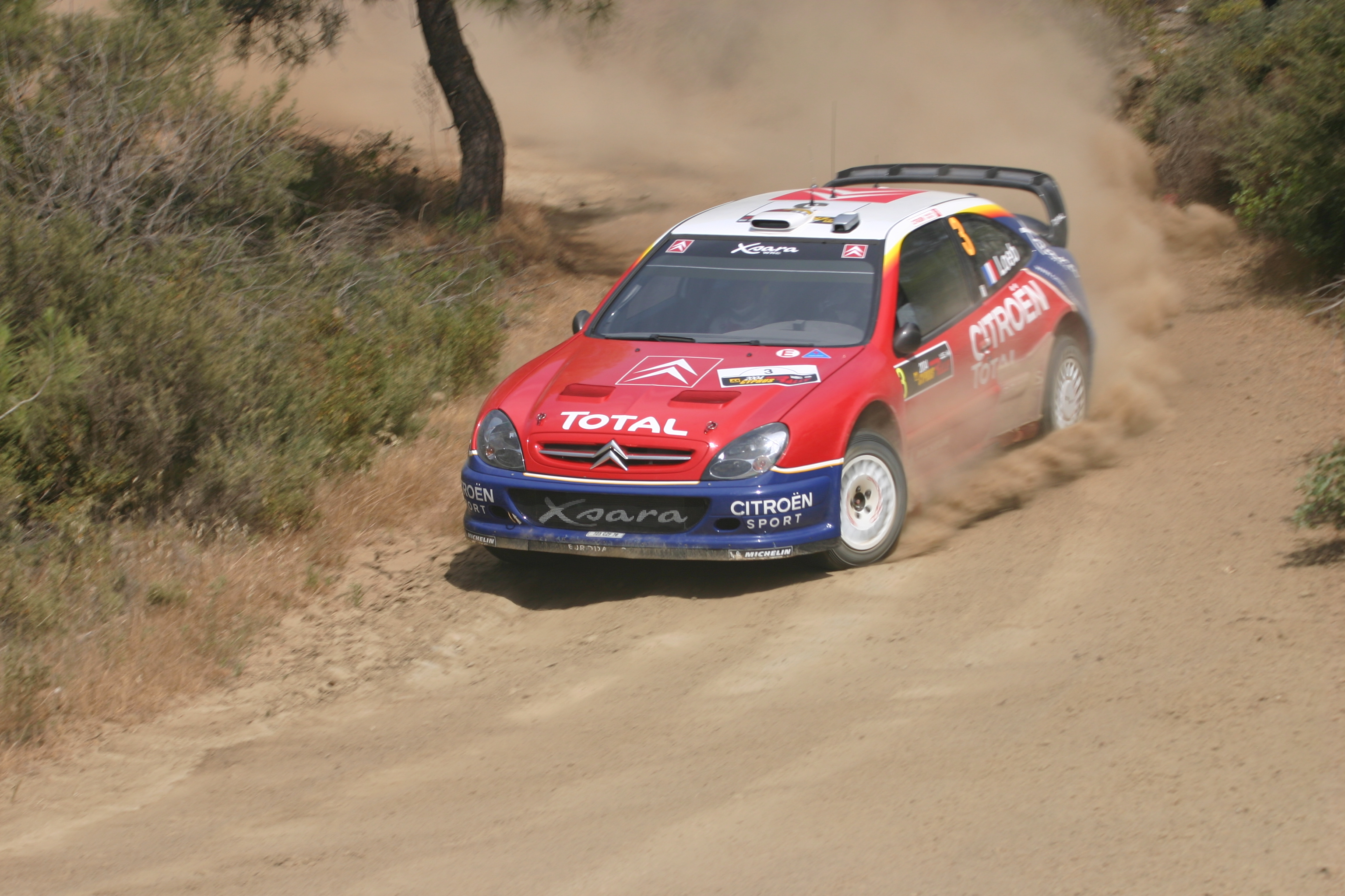 Sébastien Loeb driving his Citroën Xsara WRC during the shakedown of the 2004 Cyprus Rally.